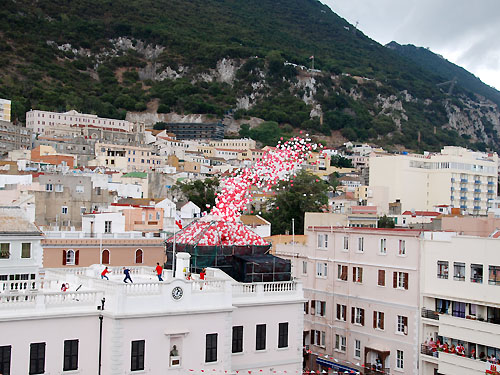 The release of the symbolic red and white balloons representing the people of Gibraltar on National Day 2009